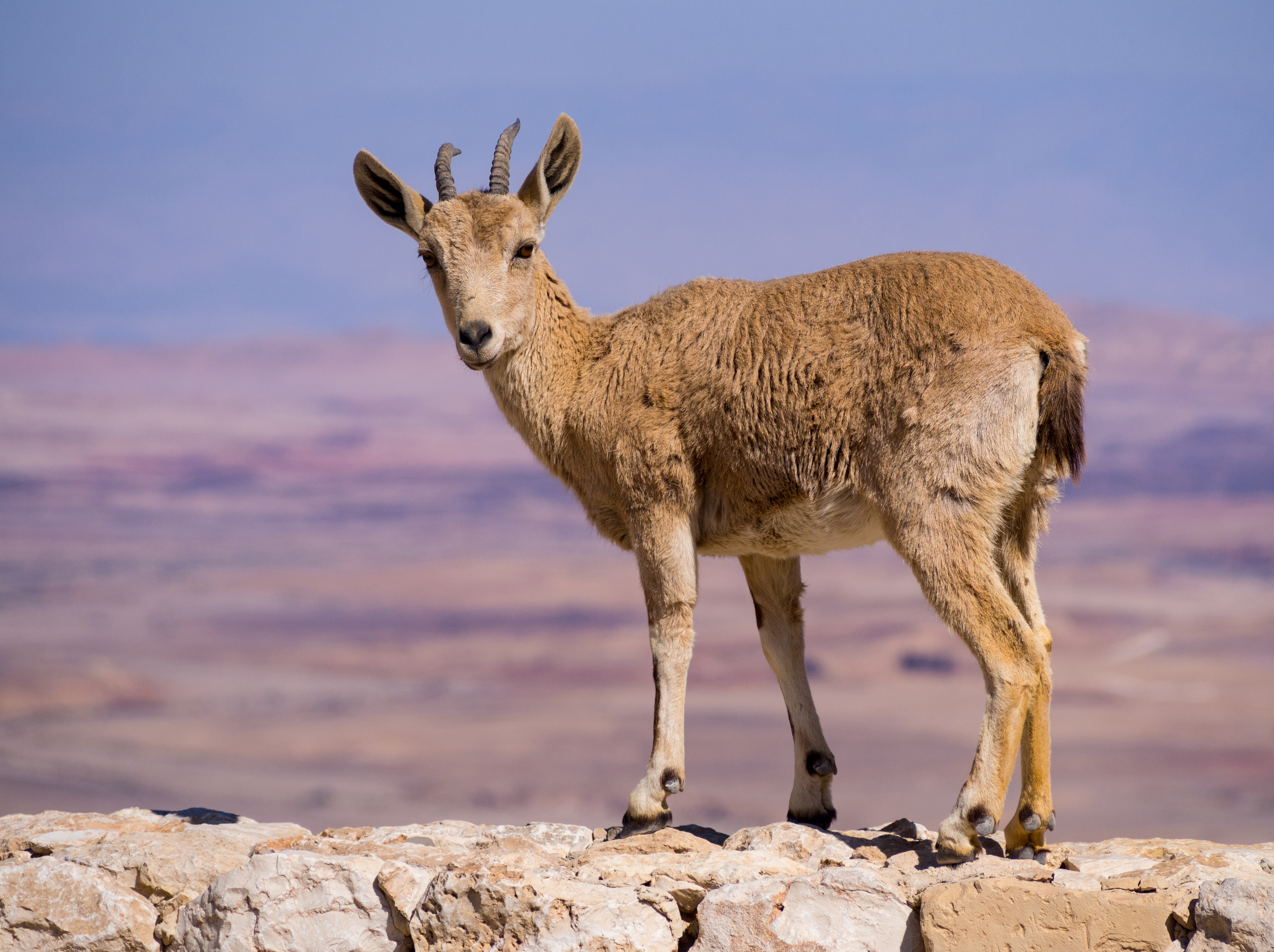 Young Nubian ibex (Capra nubiana) on a stone wall by the cliff of Makhtesh Ramon in Mitzpe Ramon.